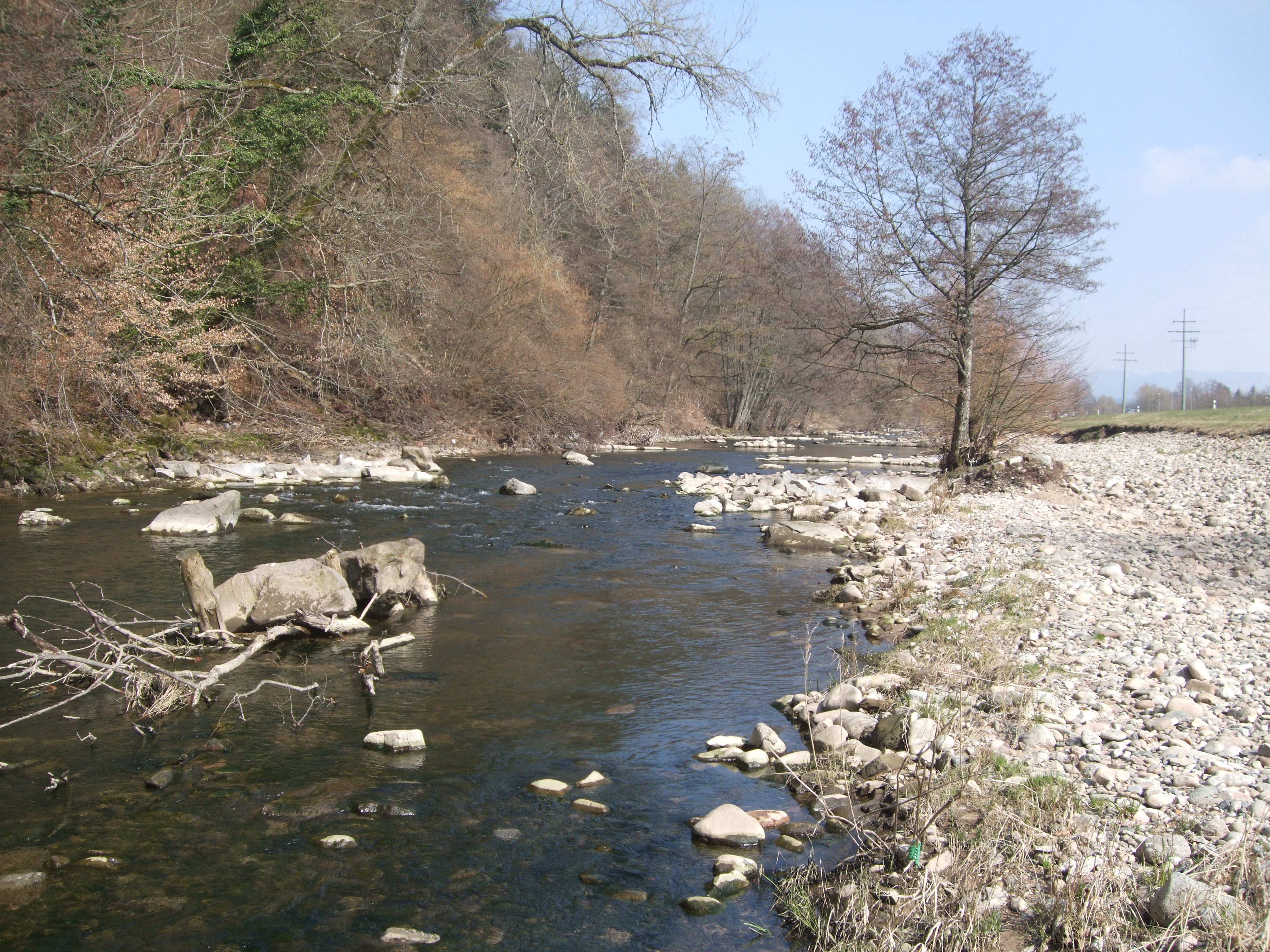 Land restoration at the Wiese near Maulburg.